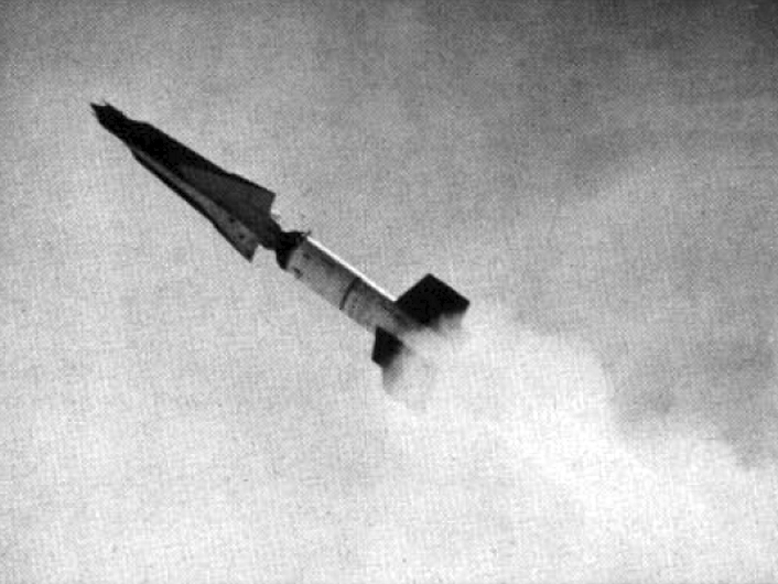 Launch of a U.S. Navy RIM-50 Typhon missile. The RIM-50 was canceled in 1963. The technology in development for this missile was incorporated in to the RIM-67 Standard missile.